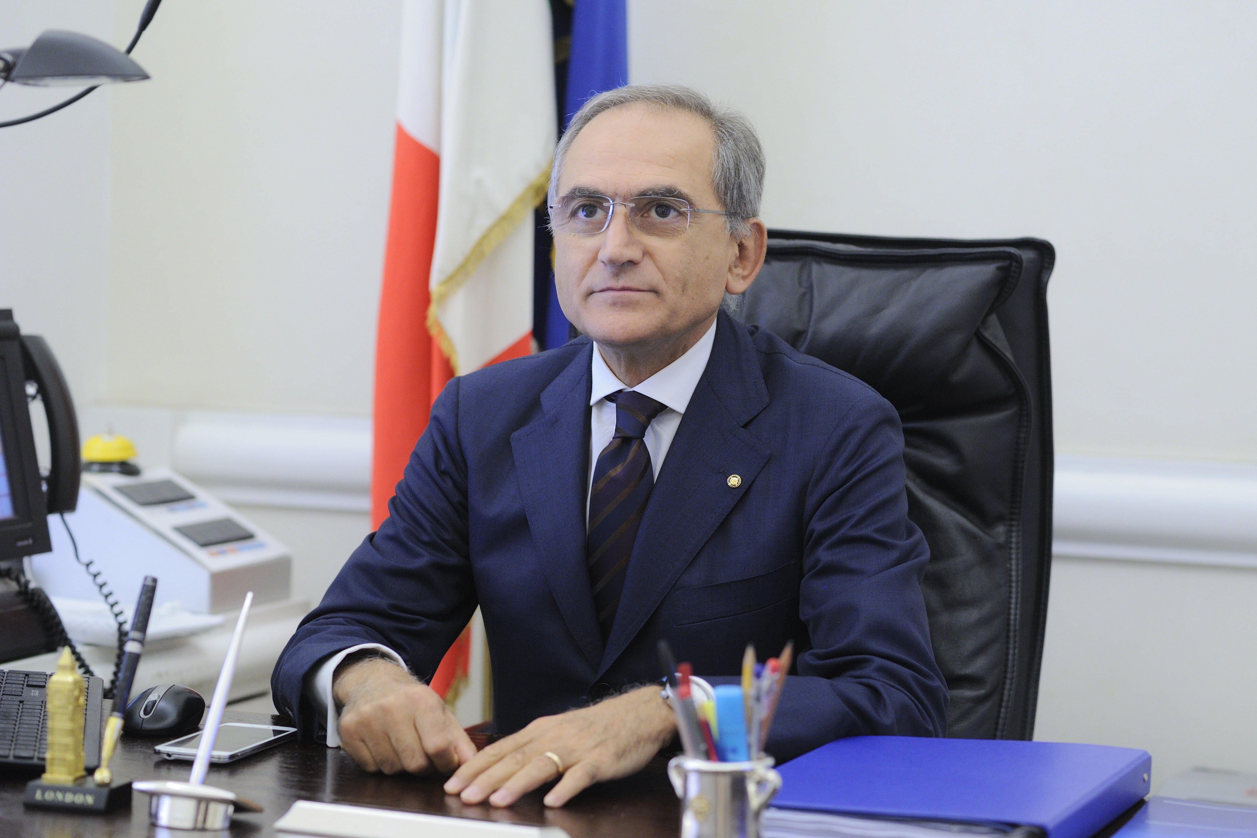 Vincenzo Panico